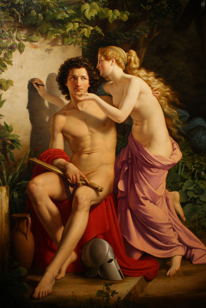 Eduard Daege - The Invention of Painting (1832)